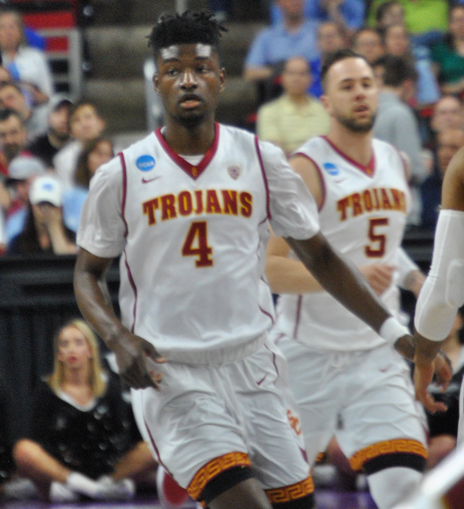 The final first round game in Raleigh featured the USC Trojans and the Providence Friars. It was the most exciting game of the day with the Friars winning at the Buzzer 70-69